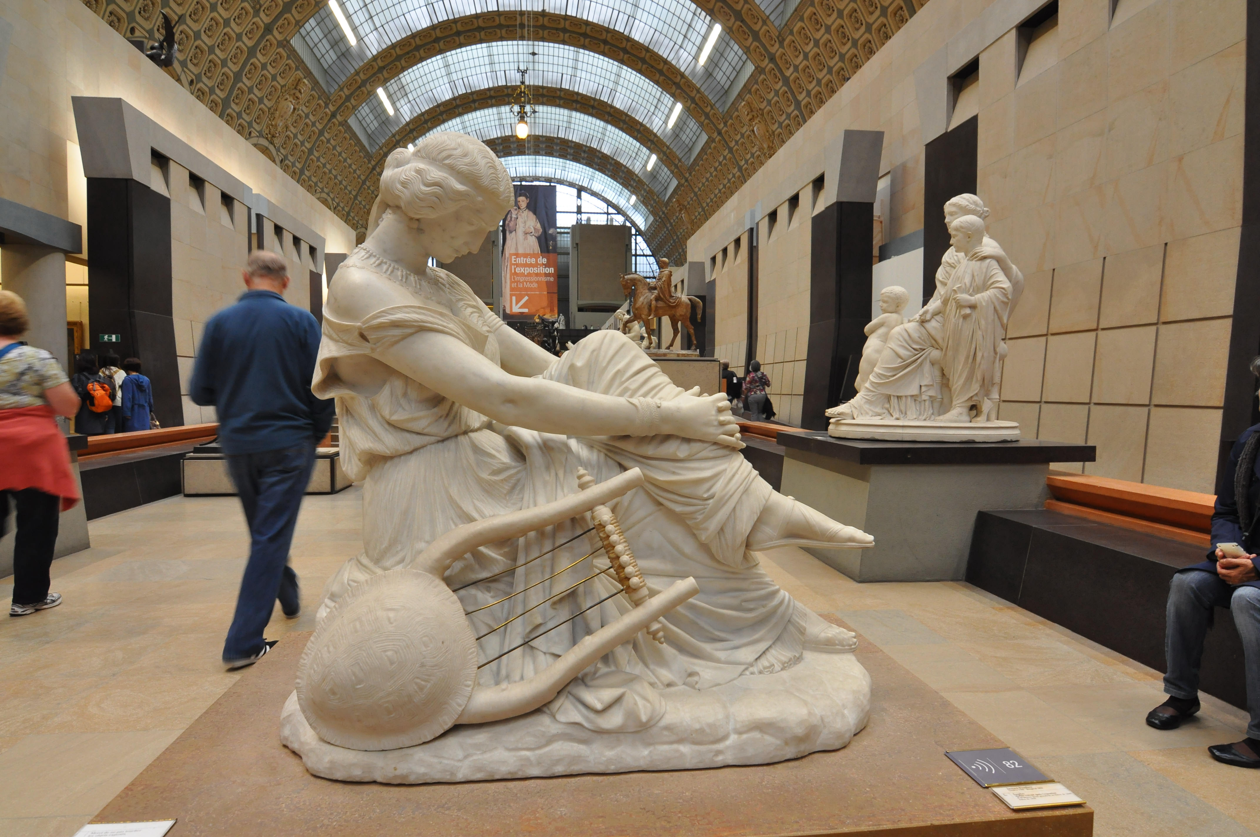 James Pradier, Sapho, 1852, Paris, Musée d'Orsay, France.